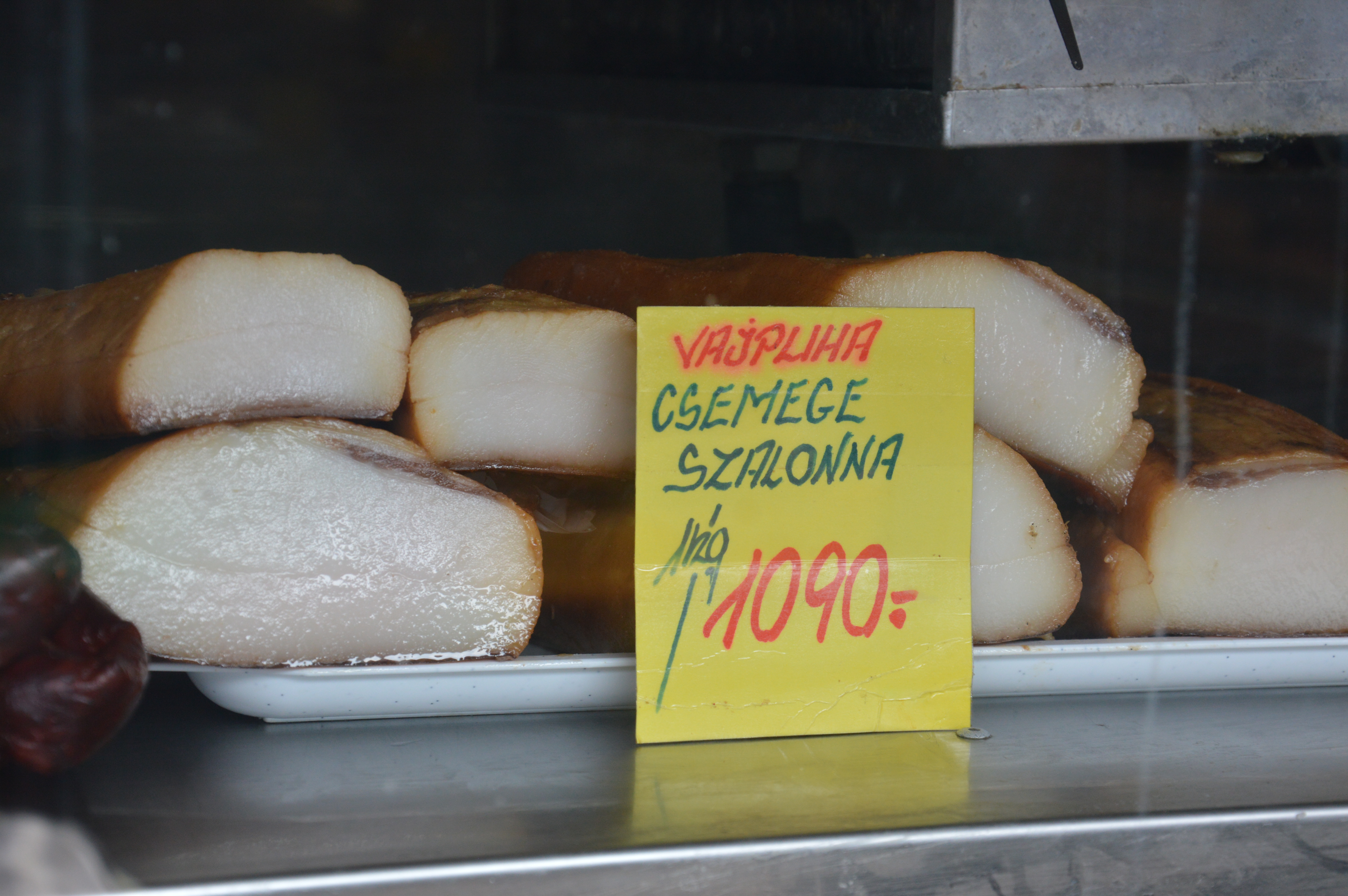 Hungarian Szalonna for sale in Budapest